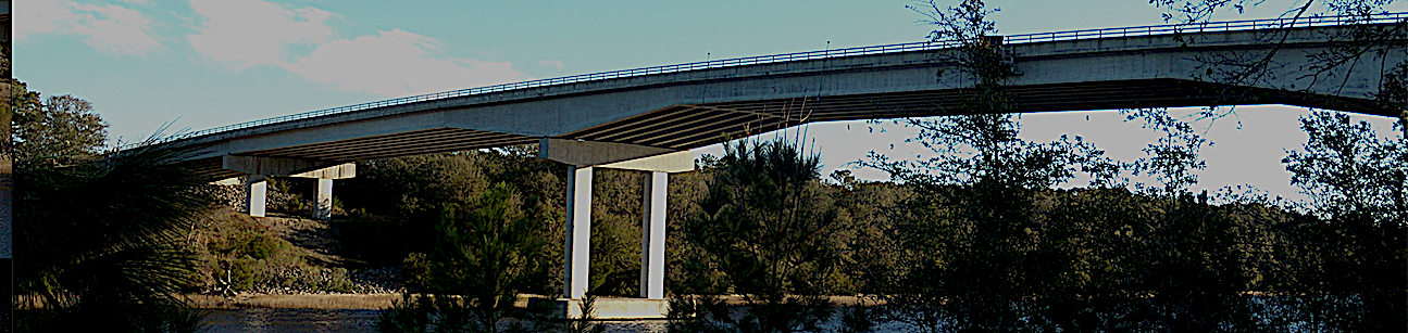 Looking NE towards the mainland